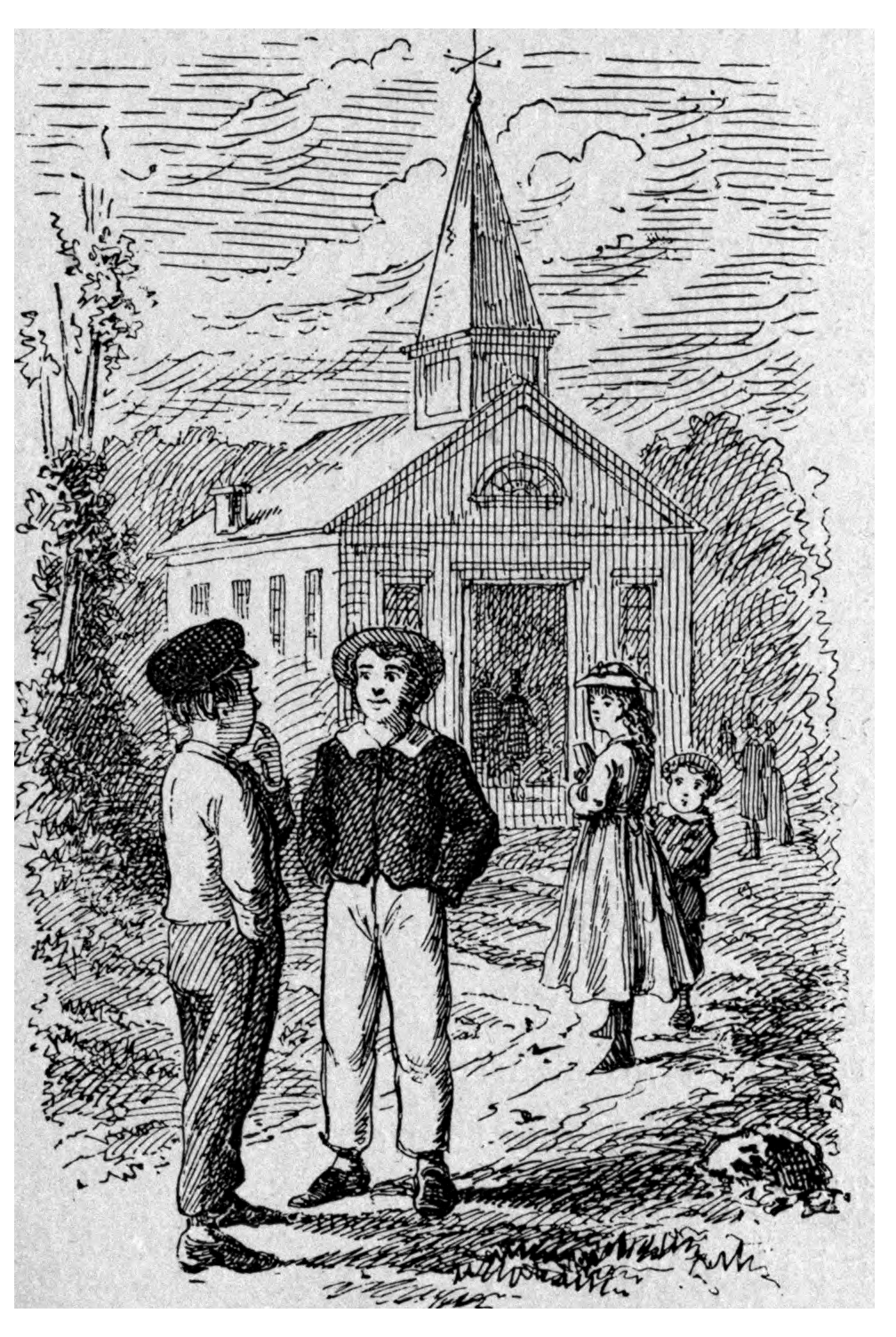 Scan of illustration from the book Adventures of Tom Sawyer, written by Mark Twain & illustrated by True Williams (Trueman W. Williams).